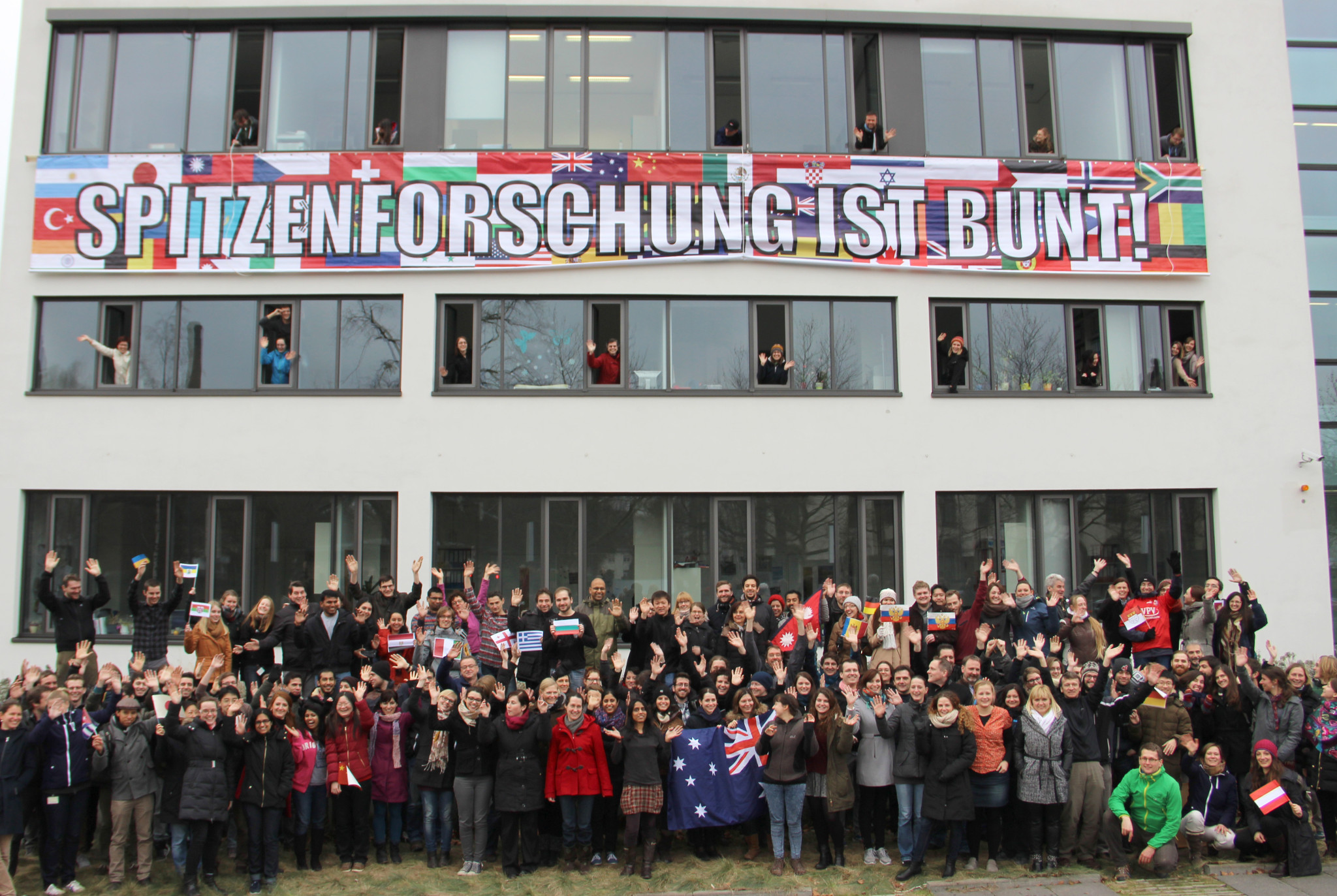 banner (literally translated "Excellent research is colourful!") at the day of uncovering, at the Center for Regenerative Therapies Dresden